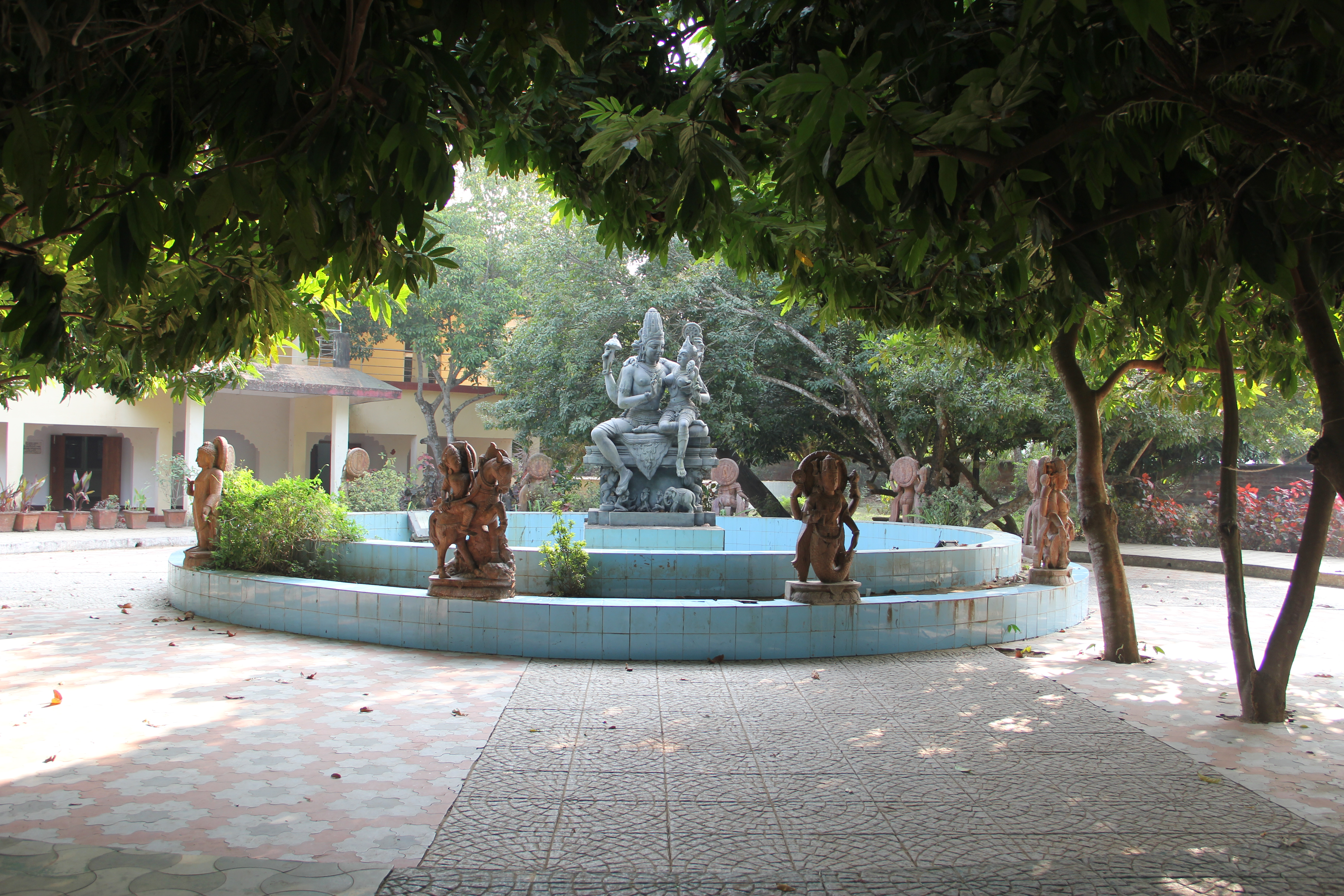 ଓଡ଼ିଆ: Jayadeva Pitha, KenduBilwa, It is the birth place of Sri Jayadev This media file is uploaded with Odia loves Wikipedia